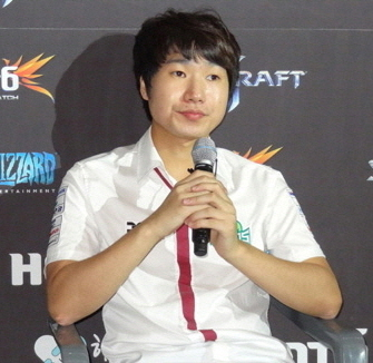 Kim Yoo-jin (E-sports player) in Dec 2014